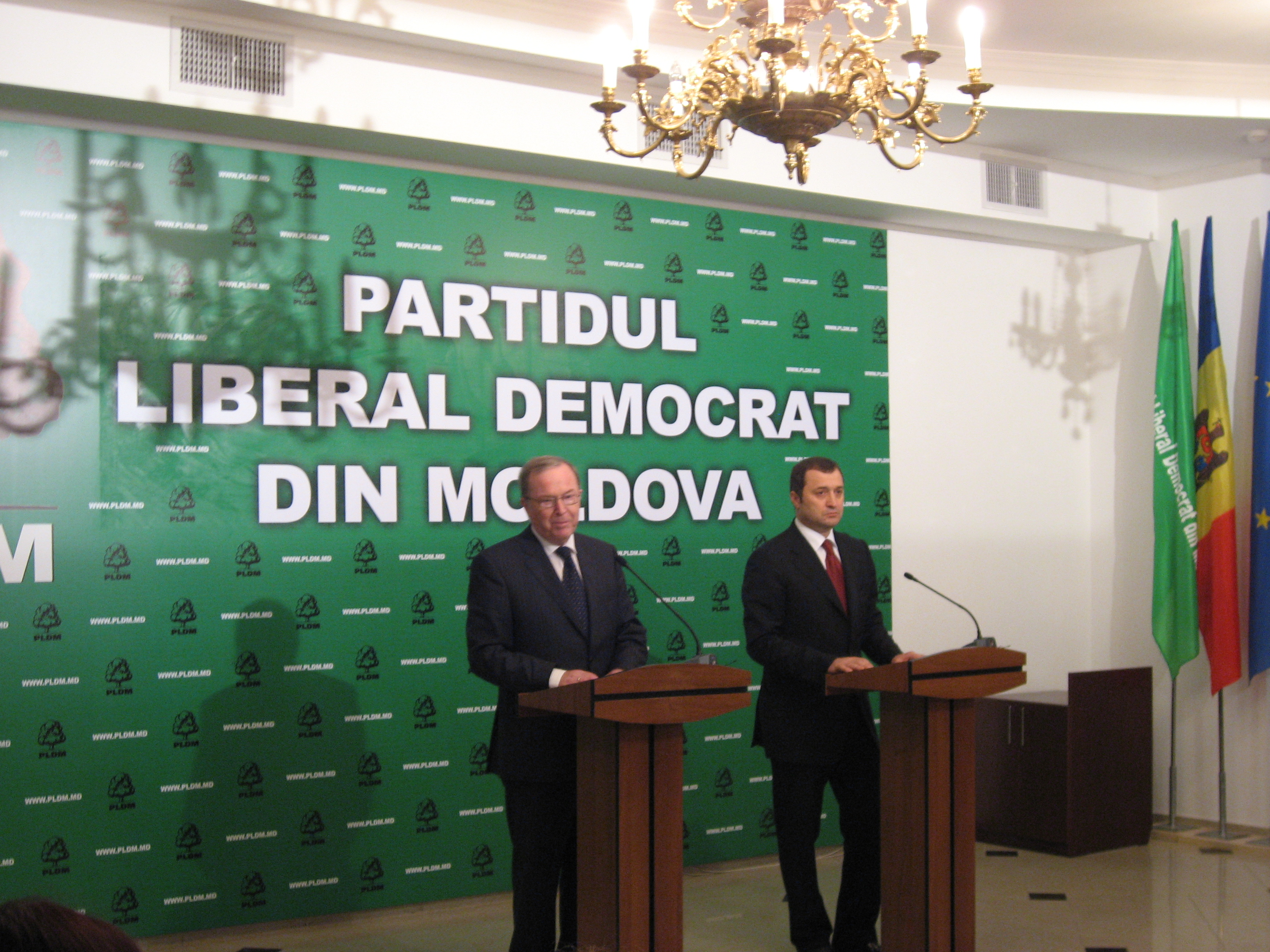 EPP President in Moldova